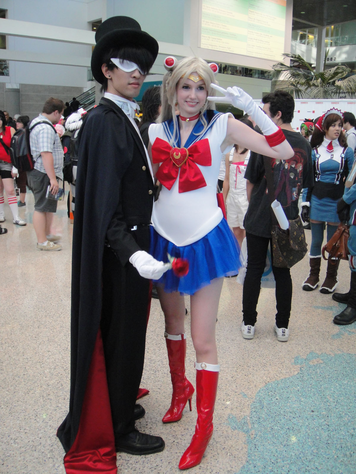 photo 2011 taken by Doug Kline If you're interested in higher resolution versions of my images, contact me via my profile page.